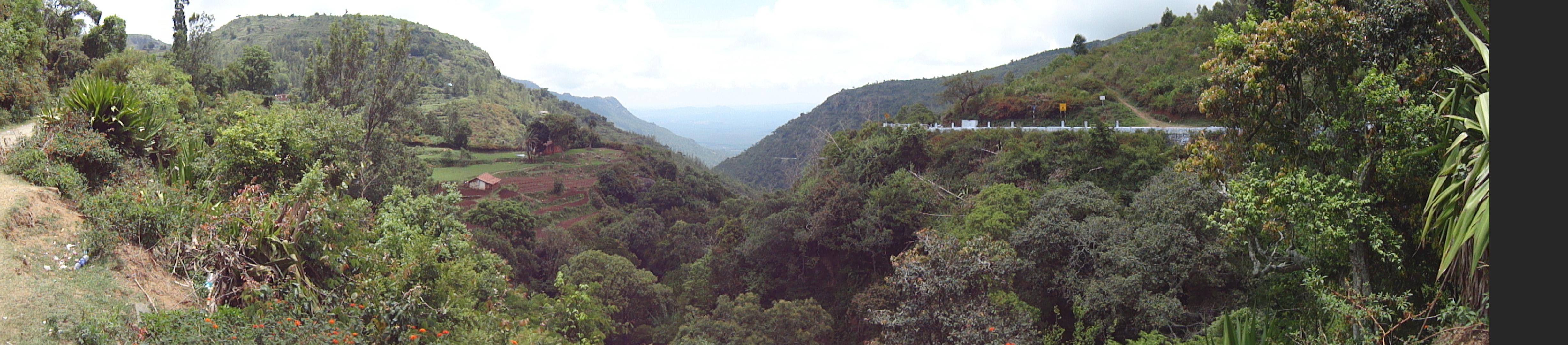 A panoramic view of the scenic beauty in Ooty.